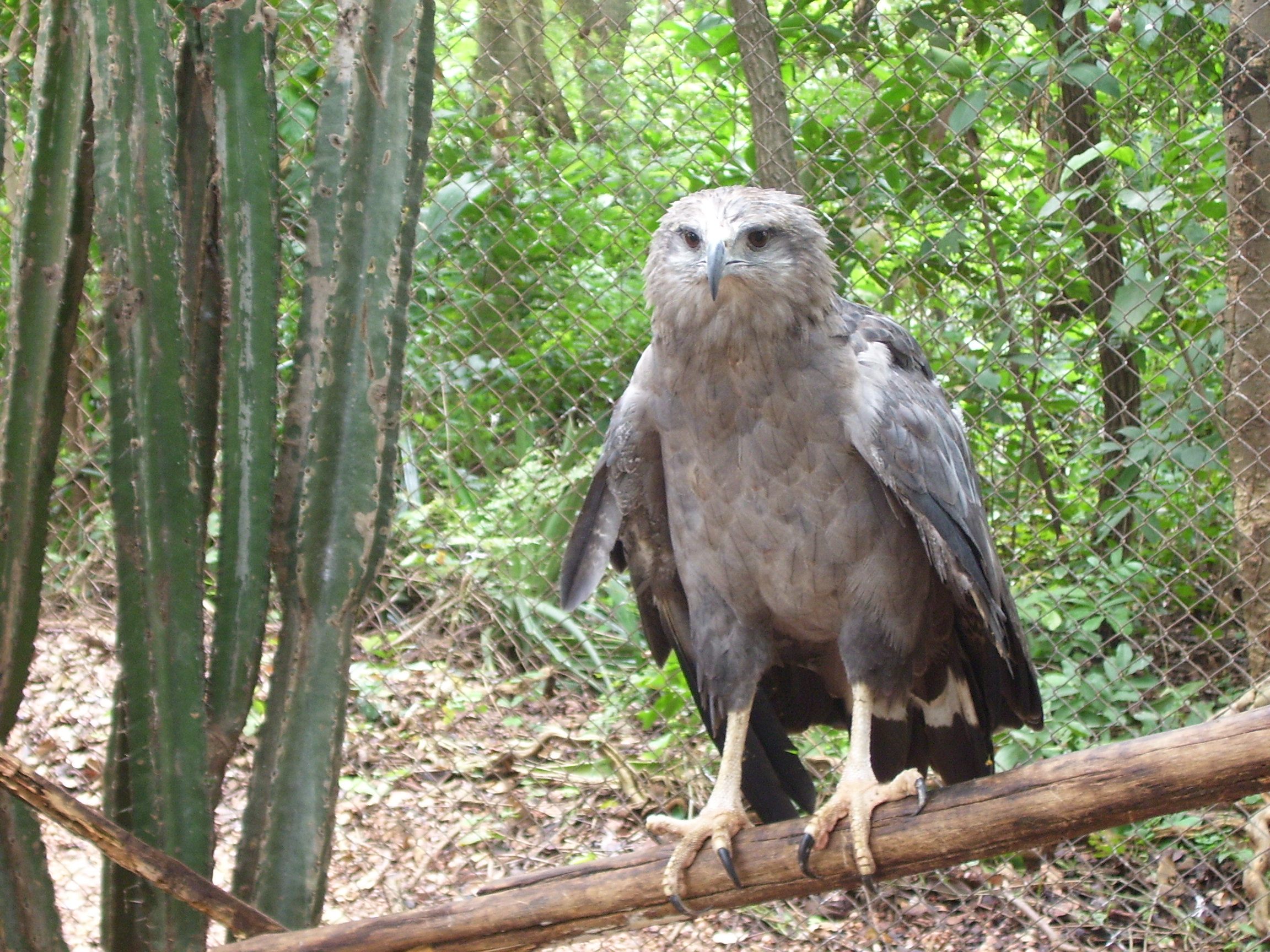 Crowned Eagle (Harpyhaliaetus coronatus), in the zoo of Federal University of Mato Grosso, Cuiabá, Brazil.